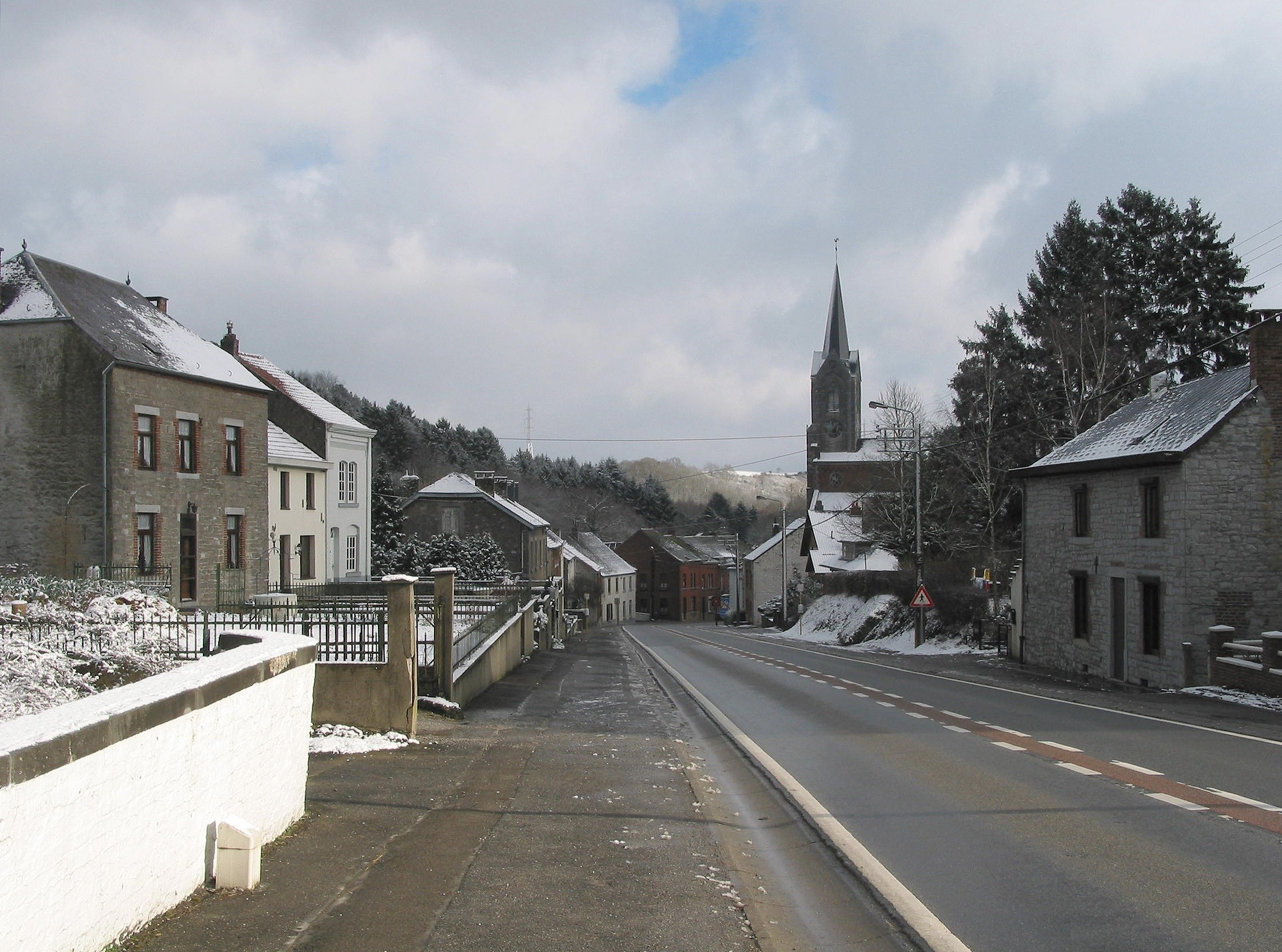 Silenrieux (Belgium), rue Royale.